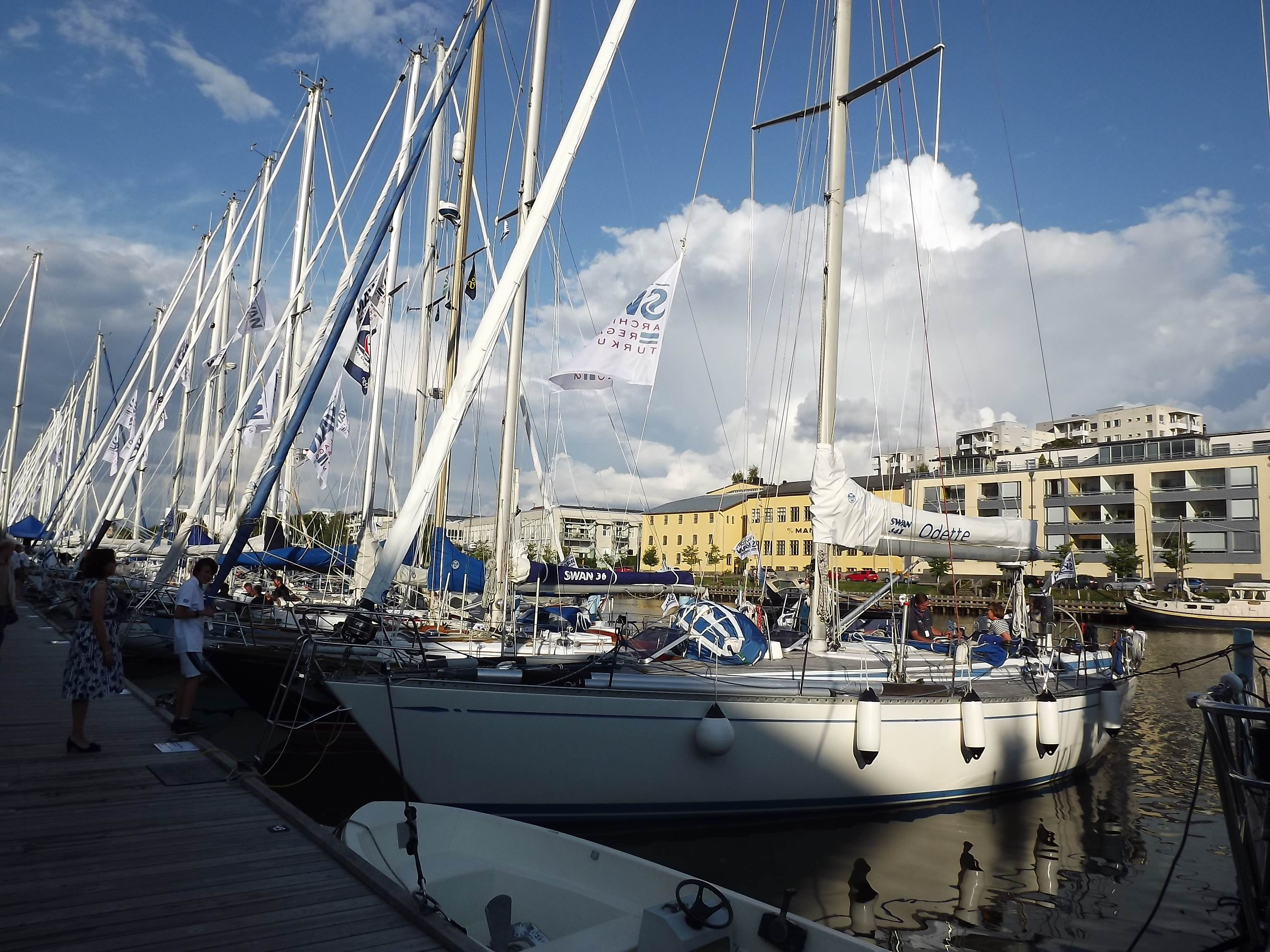 Swan 441-027 Odette in Turku guest harbour, Swan Archipelago Regatta 2012. 45 yachts of this design by Ron Holland were built 1990–1997, five of which in a special "racing" variant.